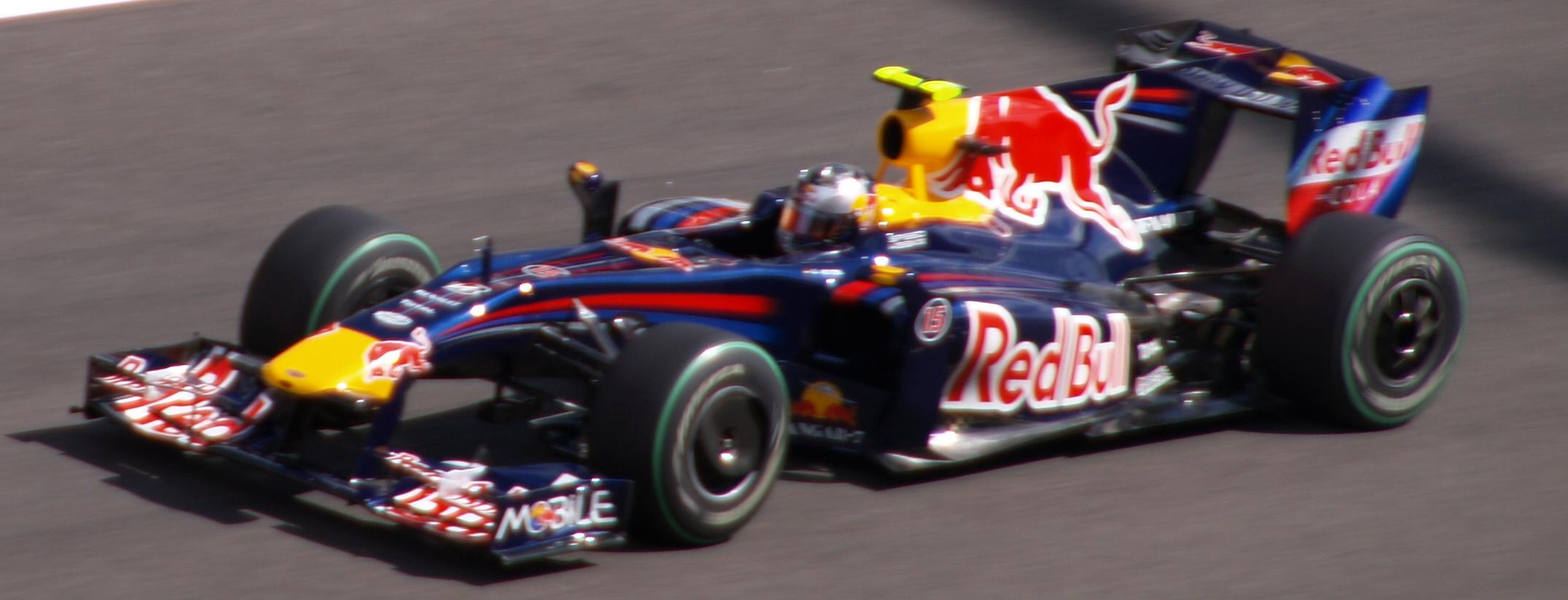 Sebastian Vettel driving for Red Bull Racing at the 2009 Belgian Grand Prix.